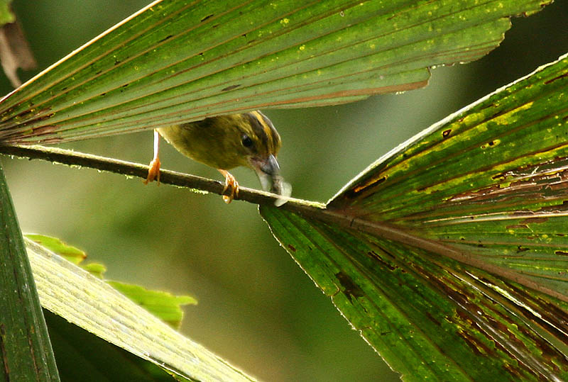 Choco Warbler (Basileuterus chlorophrys) at Milpe Bird Sanctuary, NW Ecuador.